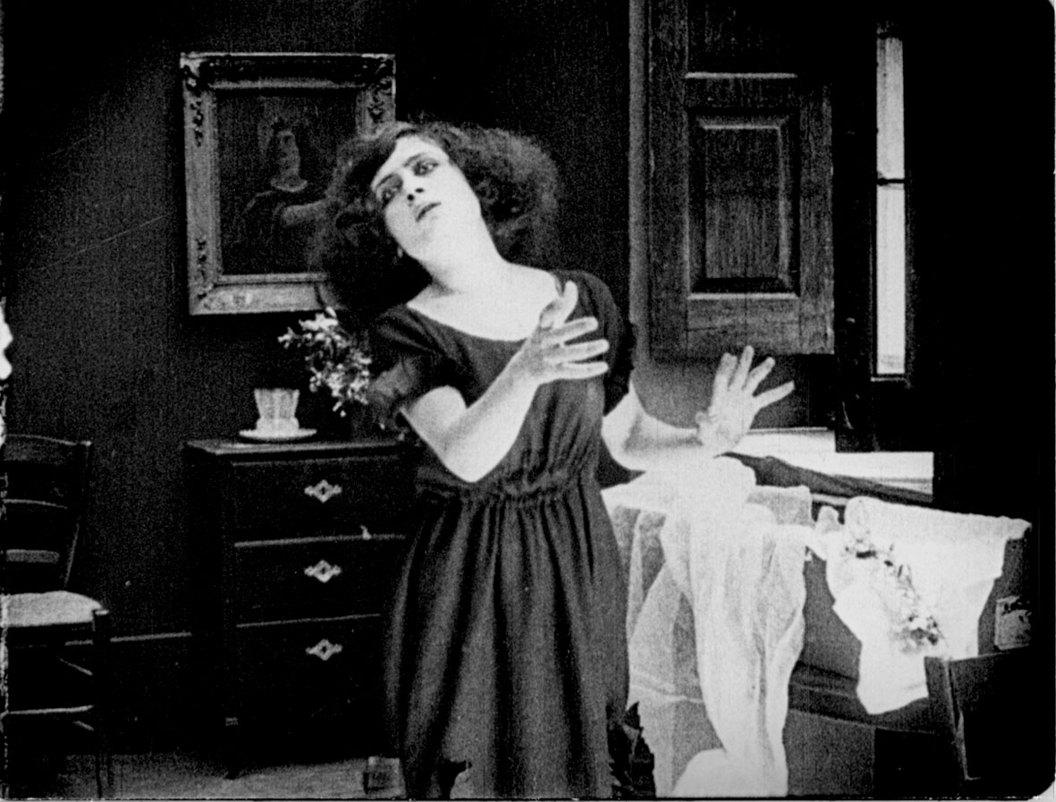 Rosè Angione as Nanninella in ‘A Santanotte whis was a 1922 fil be Elvira Notari who died in 1946.